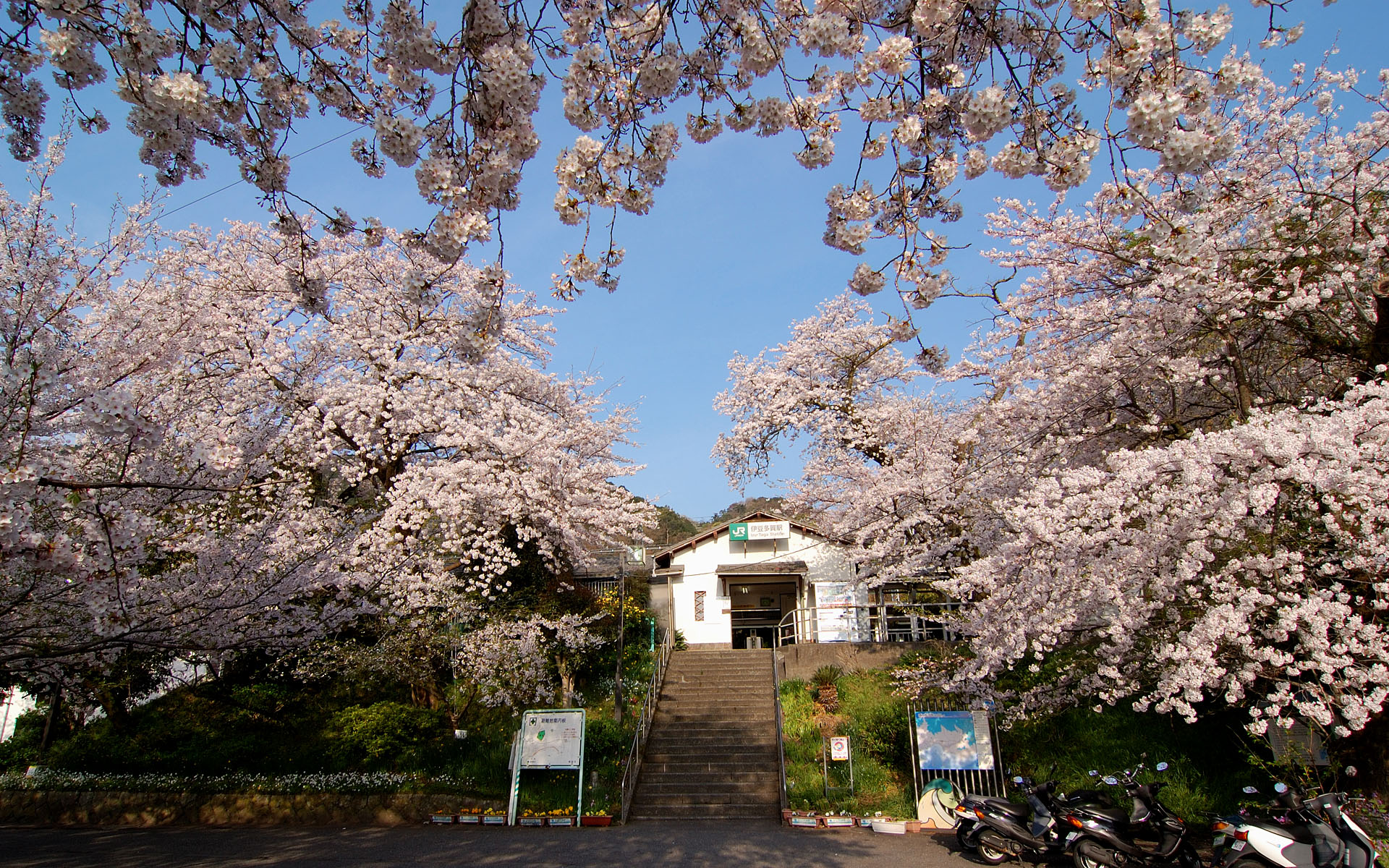 Izu-Taga Station